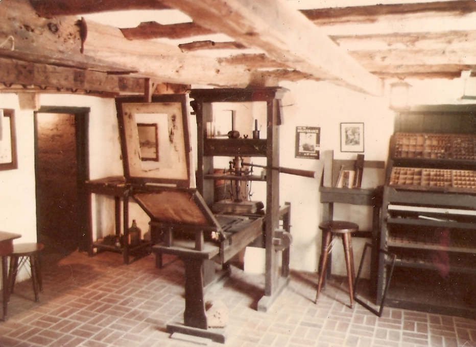 The Featherbed Alley Printshop Museum features a replica Gutenberg press, and is located in the lower level of the Mitchell House, in St. George's, Bermuda. The upper level of the house holds the St. George's Historical Society Museum. The house is named for its architect, Walter Mitchell, who had it built in the 1720s.